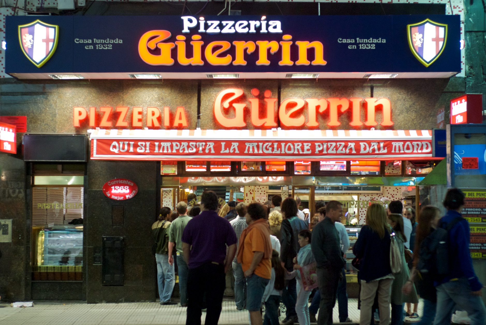 The famous Pizzeria Güerrin in Buenos Aires, Corrientes Av..